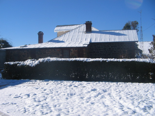 Author JT Moloney Source: JT Moloney